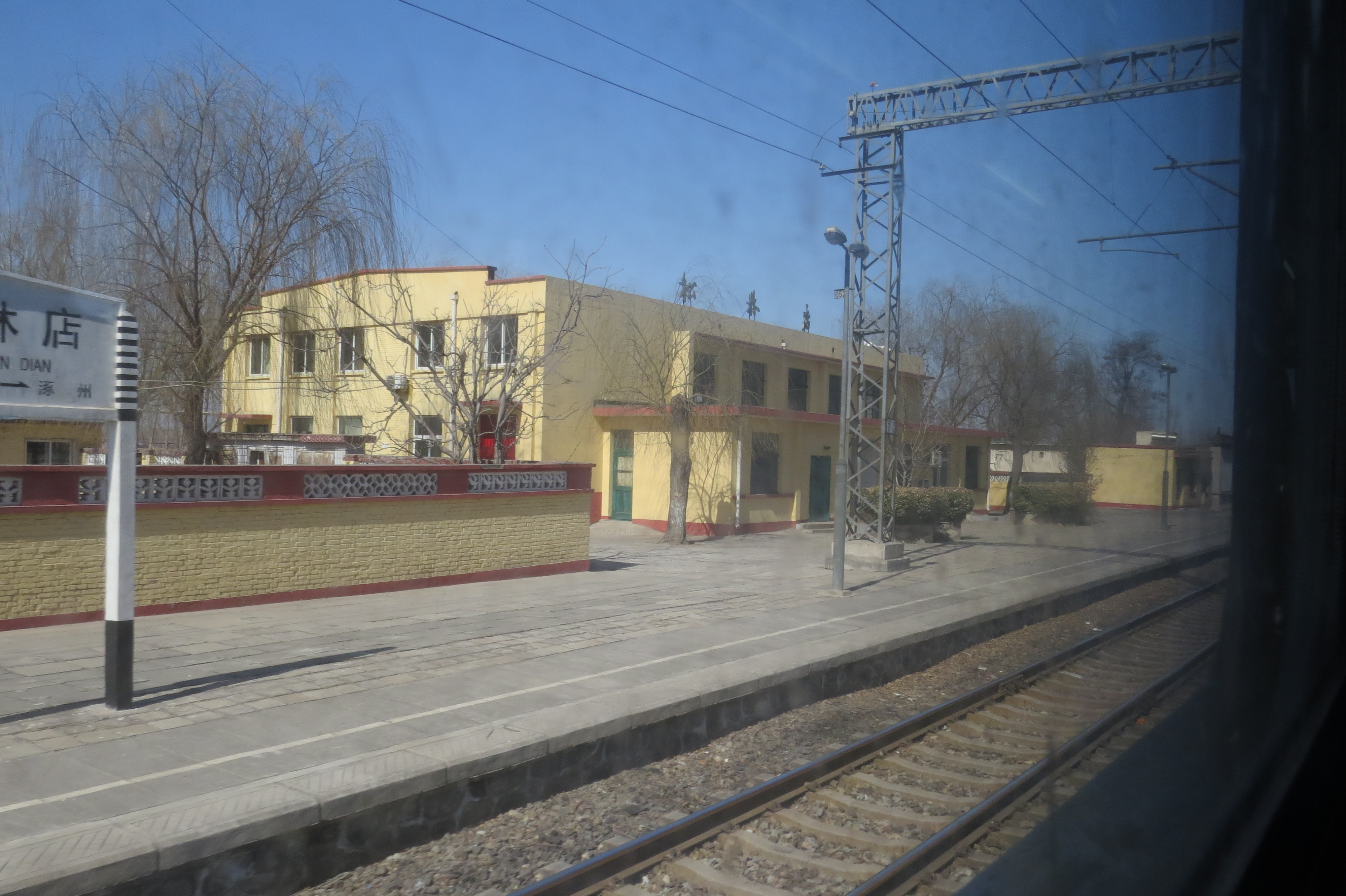 Zhuozhou after Gaobeidian.